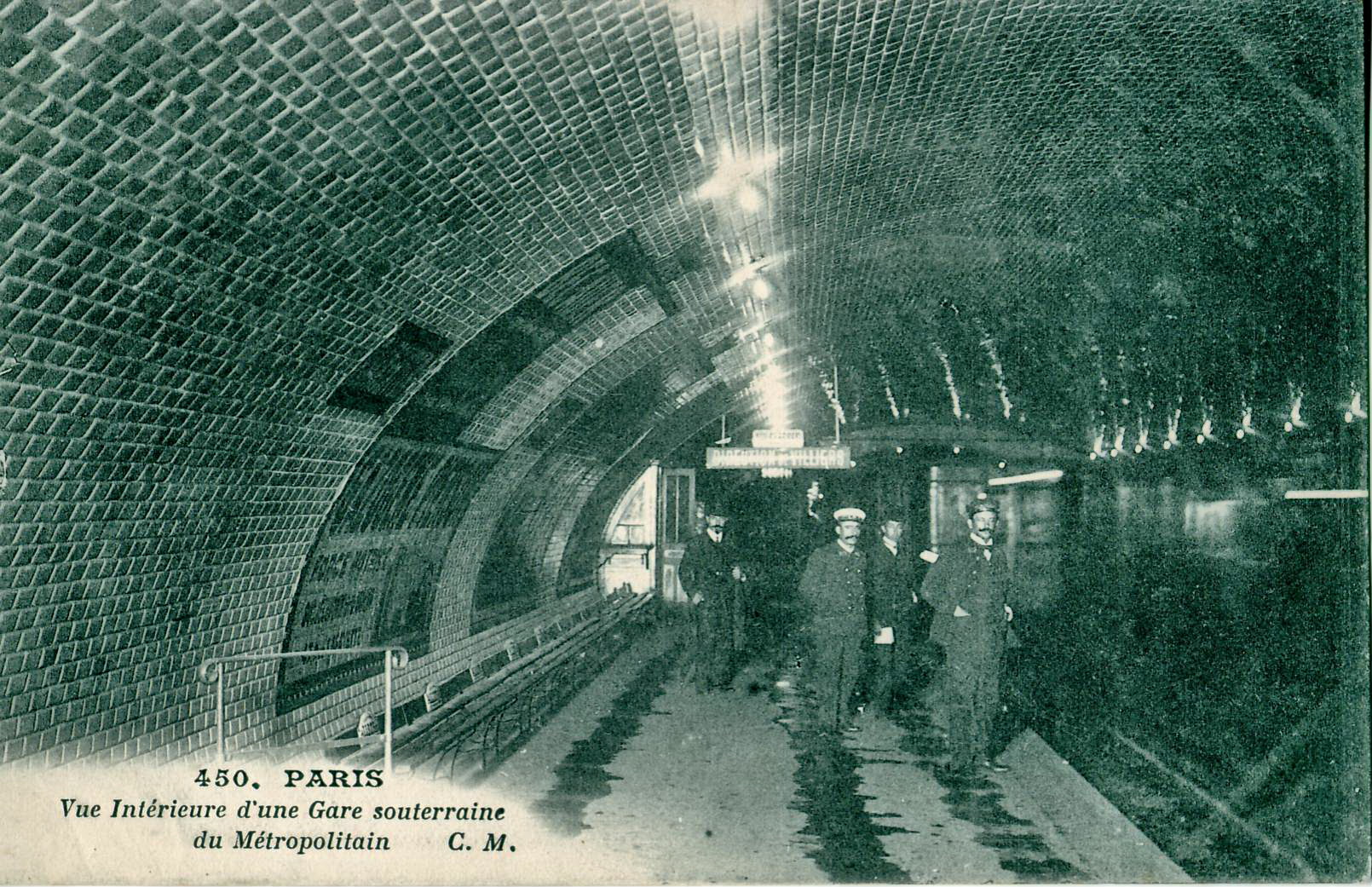 Paris Metro